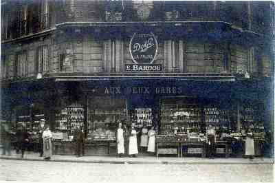 French grocery at the begining of the 20th century. Paris 10. Epicerie Bardou